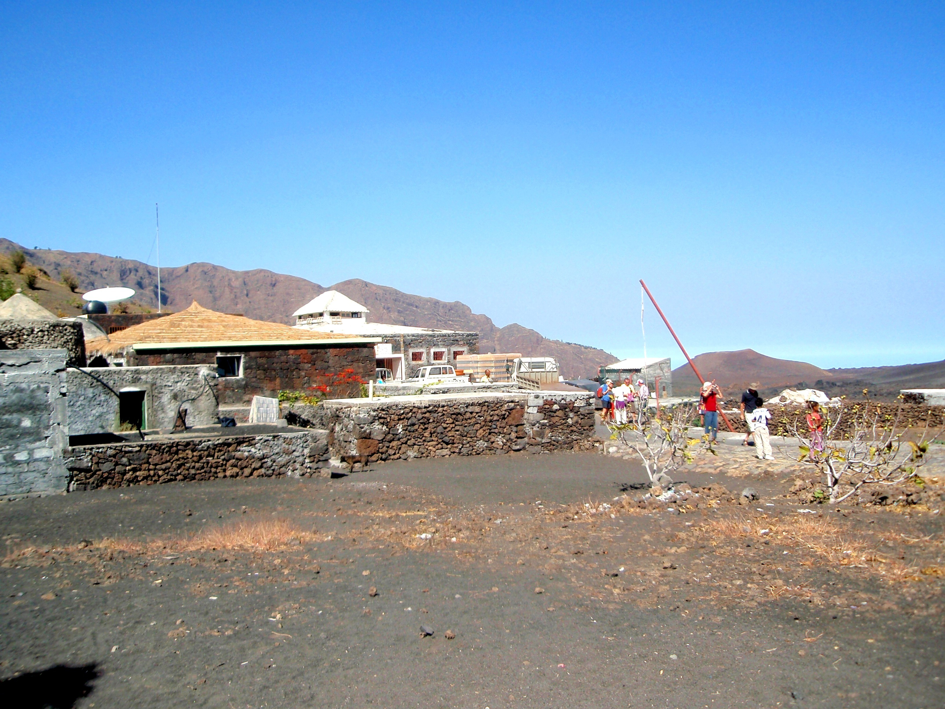 Fogo (Cape Verde)